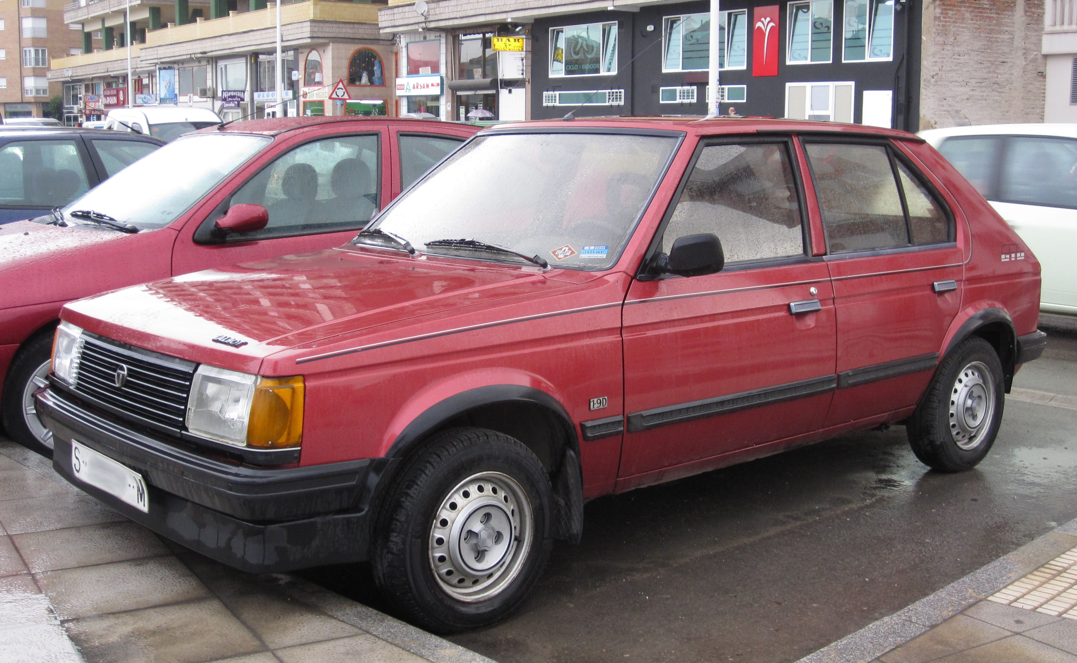 Ha! nice, isn't it?? It's been a long time since I last saw such a very well kept Horizon. It had a 1985 plate from Santander (Cantabria) and I saw it in my city.